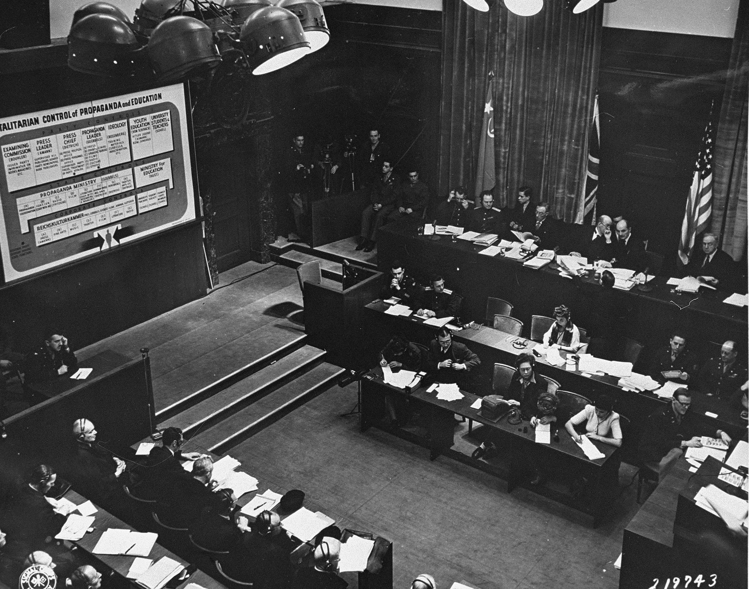 See title